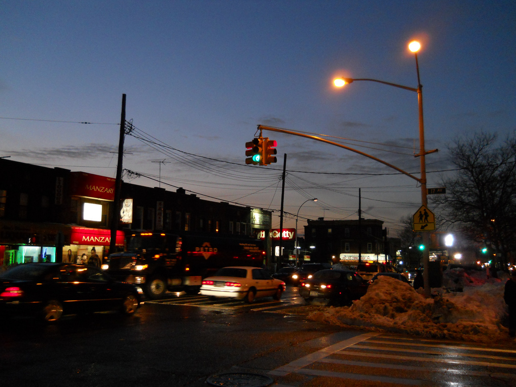 86 Stree intersecting with 17th Avenue in Bensonhurst/Bath Beach in Brooklyn, NY.